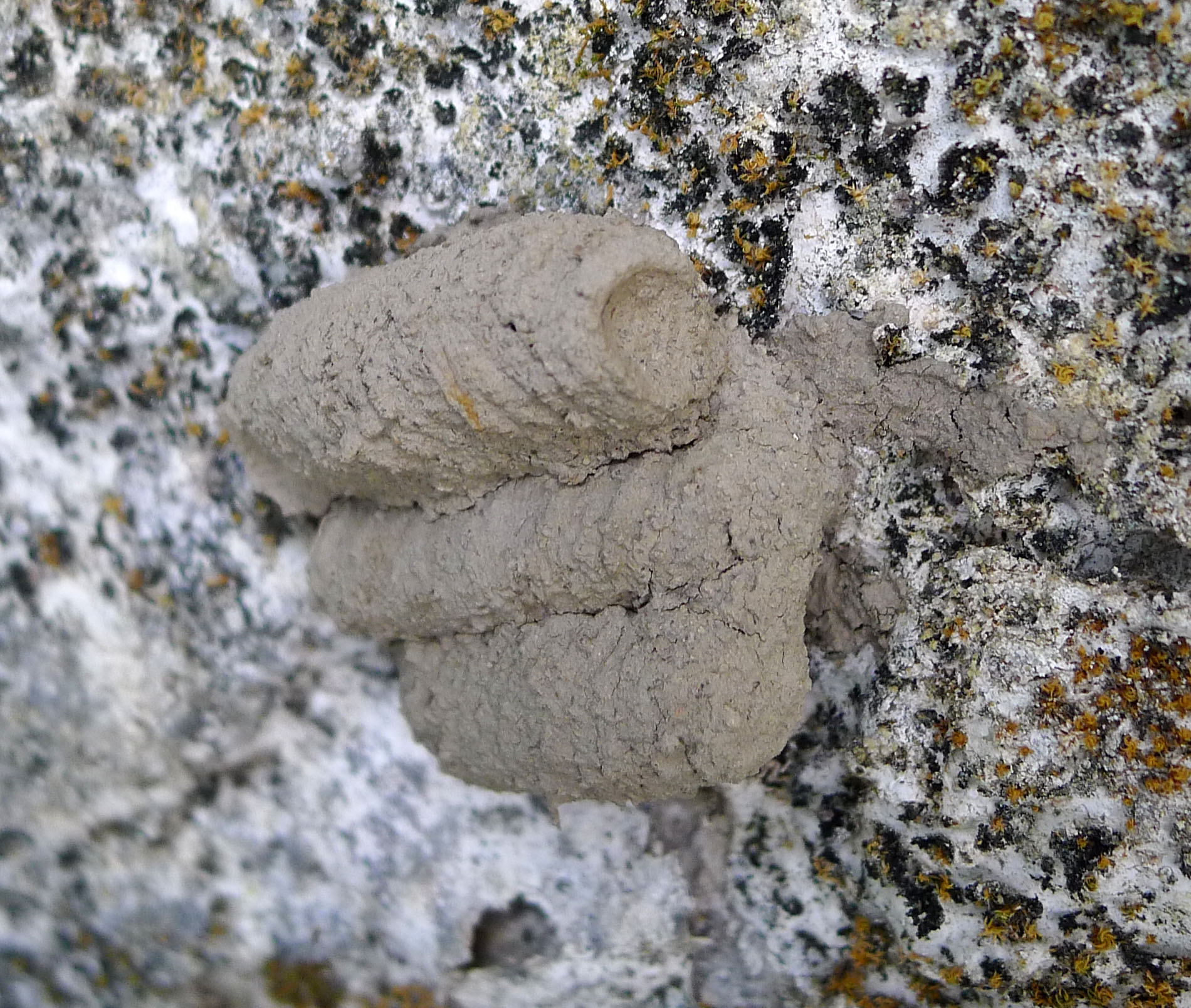 Third chamber completed and sealed in with spiders